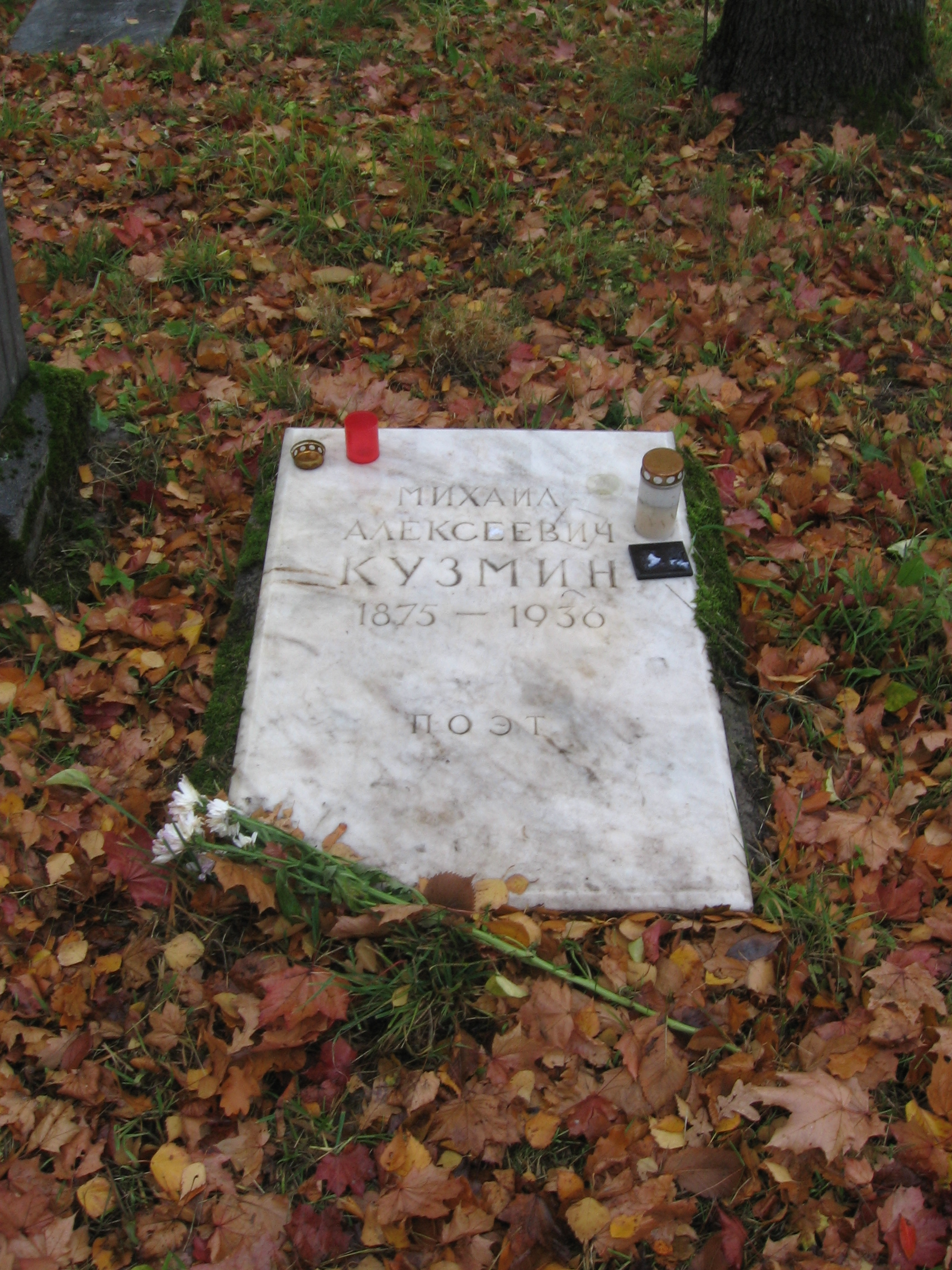 Grave of Mikhail Kuzmin